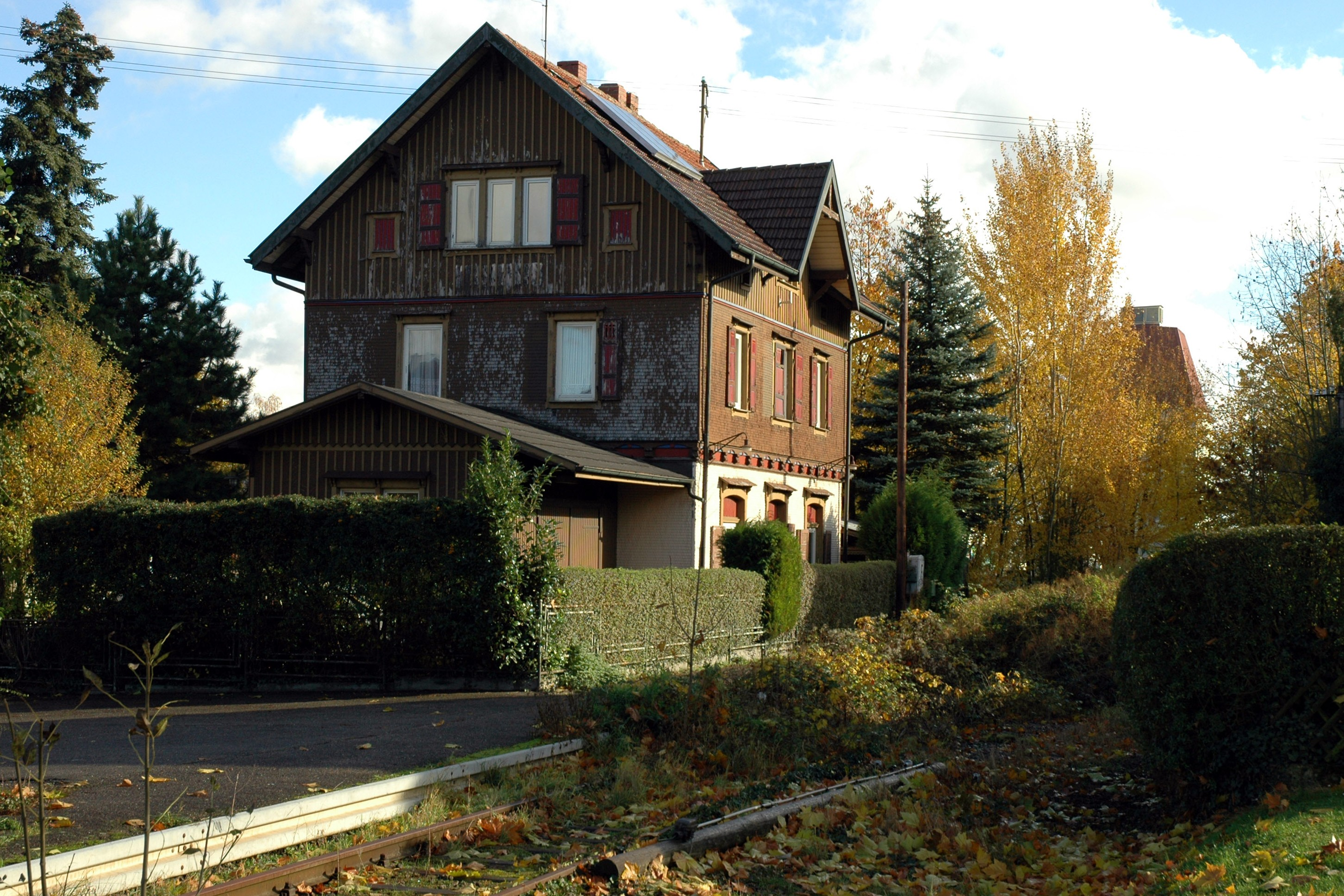 currently abandoned train station of Brackenheim.